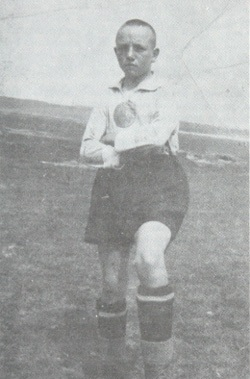 Alexander Skotsen at age 12